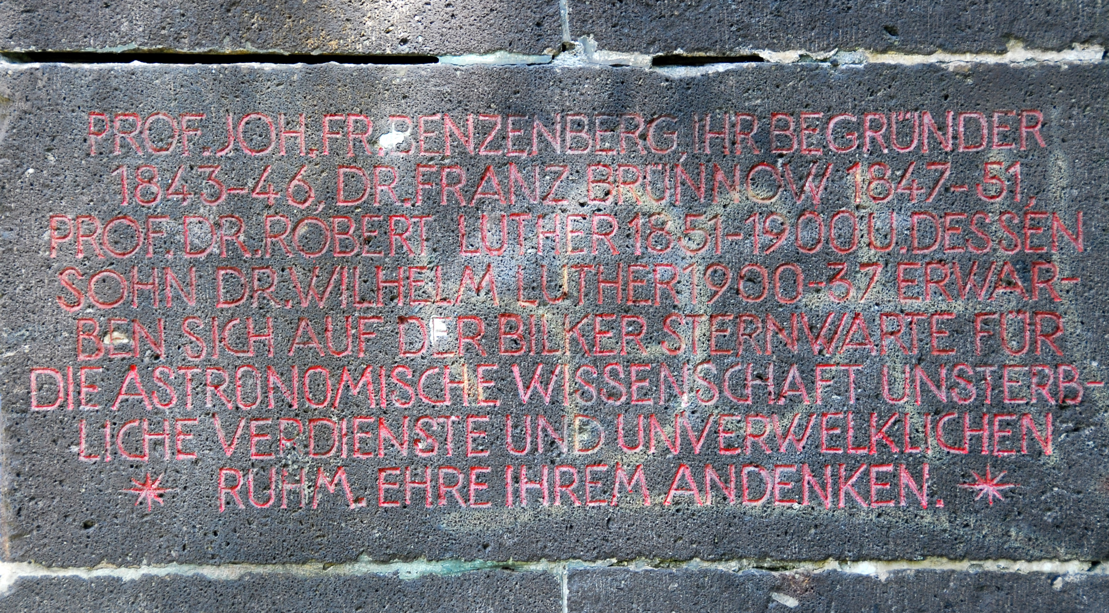 Inscription on memorial of Düsseldorf-Bilk Observatory